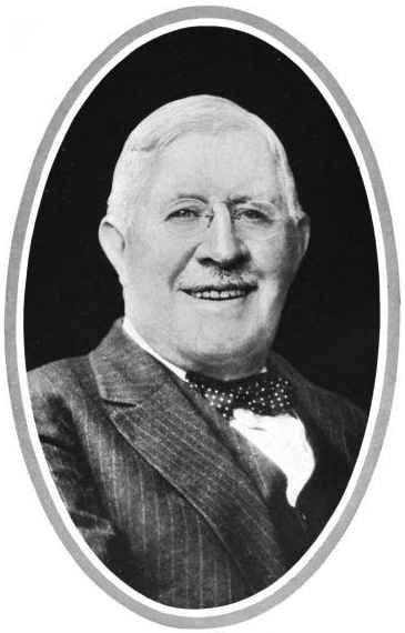 William D. Boyce, early founder of Boy Scouts of America